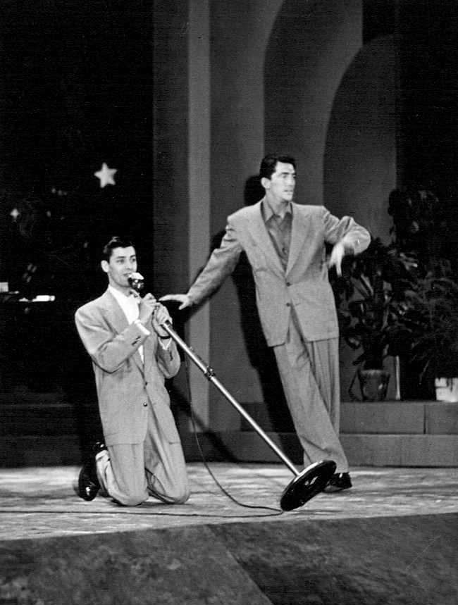 Photo of Jerry Lewis (left) and Dean Martin performing on the first Ed Sullivan Show in 1948. The show was called The Toast of the Town at that time. CBS re-issued the photo in 1963 for a celebration of 15 years of The Ed Sullivan Show.